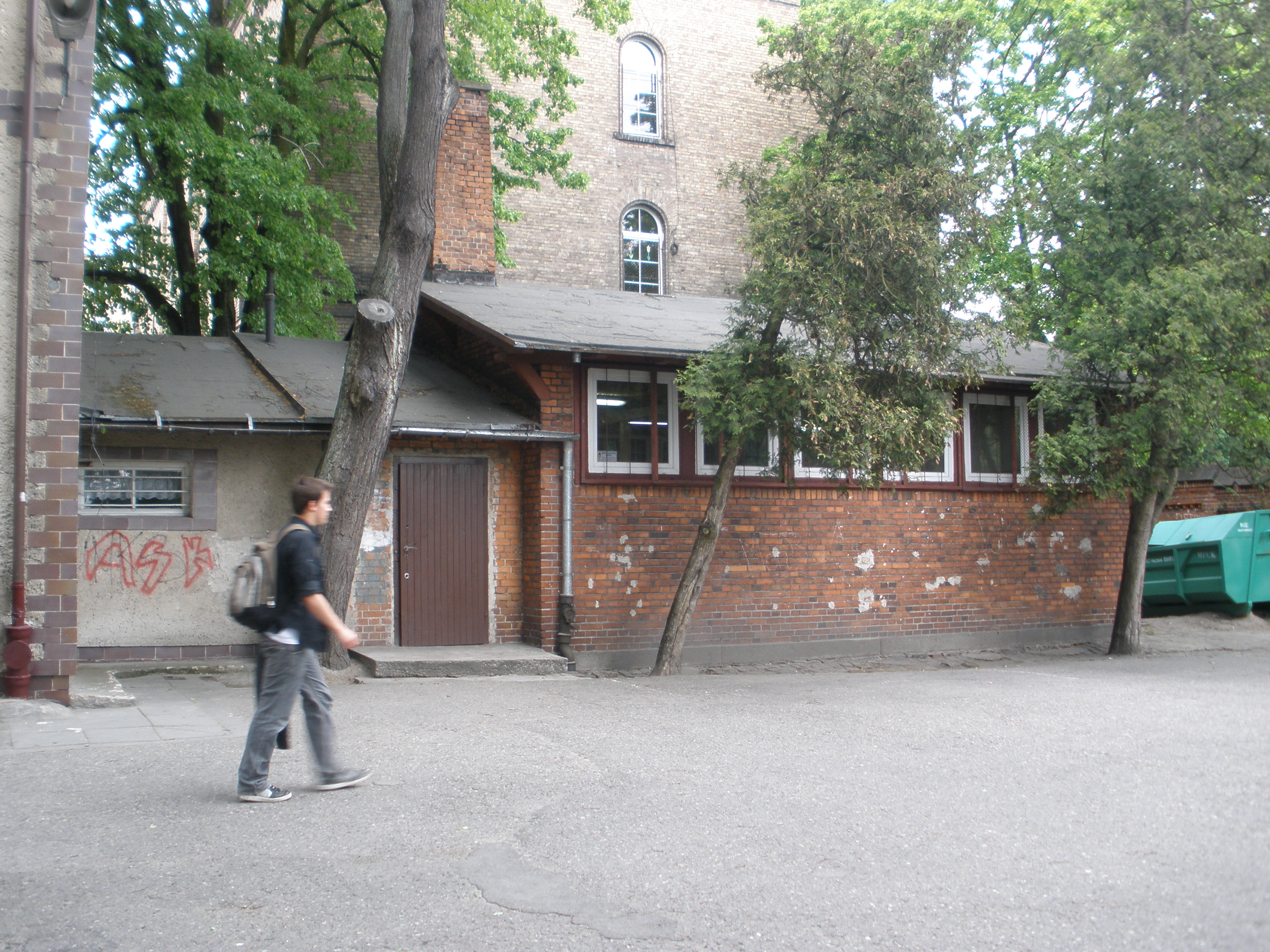 Building which belongs to ILO in Stargard Szczeciński.